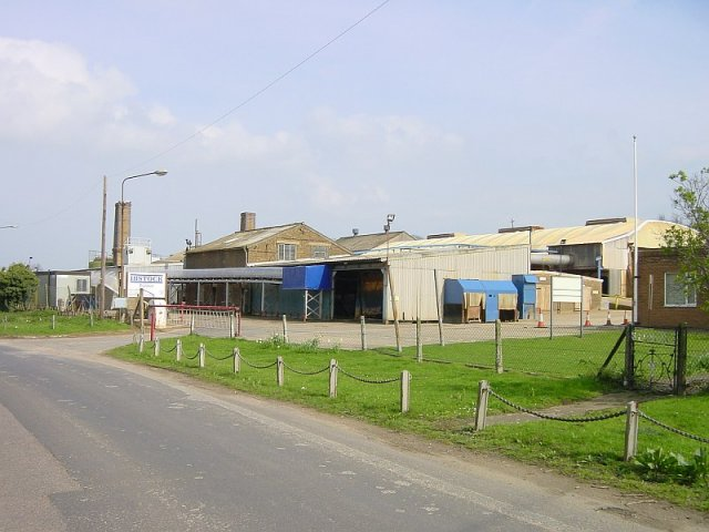 Funton Brick Works. One of a number of small brick works still producing the classic, yellow London stock bricks for which this area is well known.